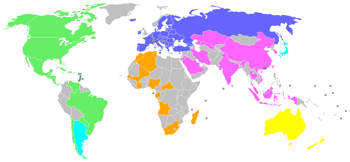 Countries that took part in qualification for the 2006 FIBA World Championship.